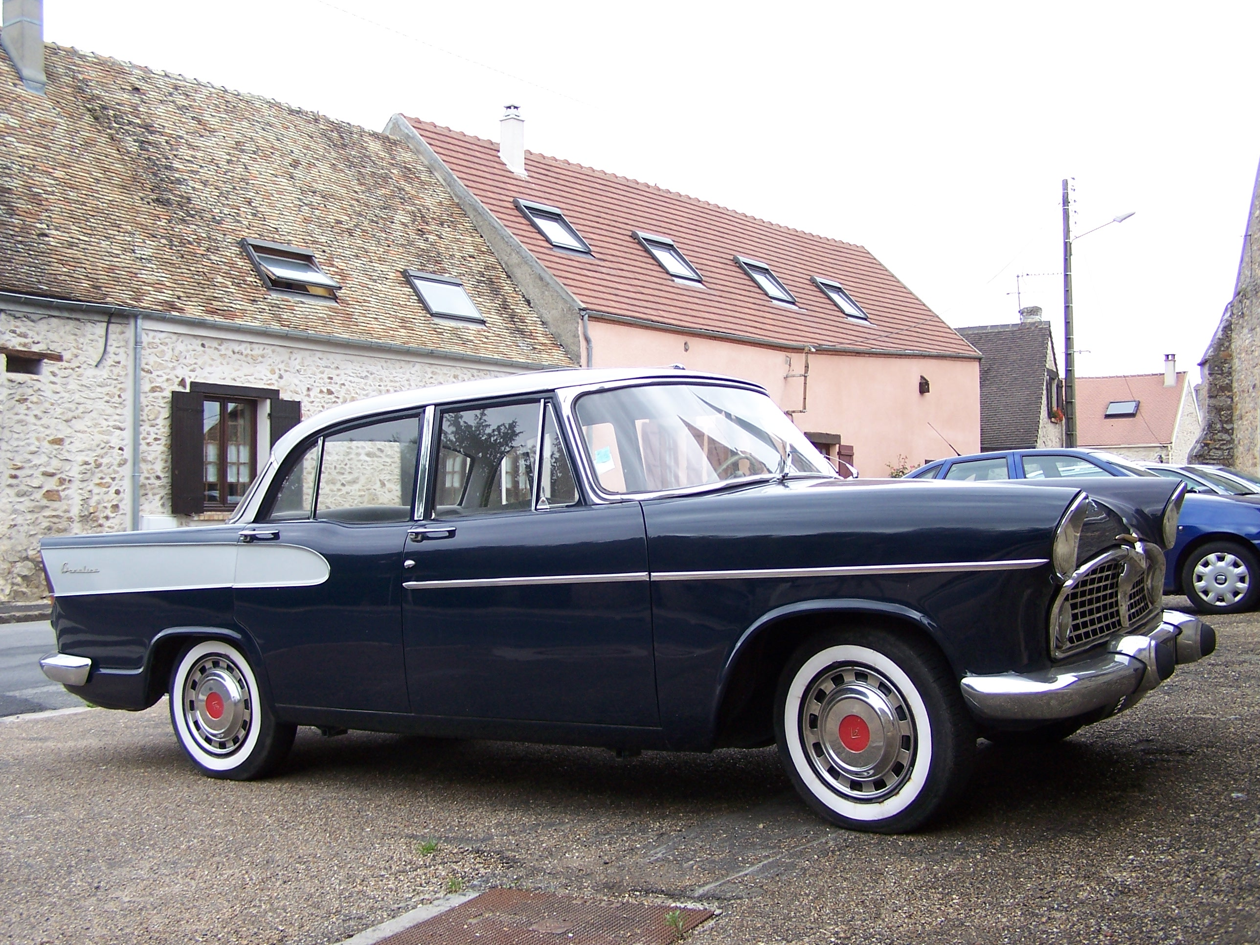 Simca Beaulieu (1958)